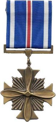 Distinguished Flying Cross (United States)